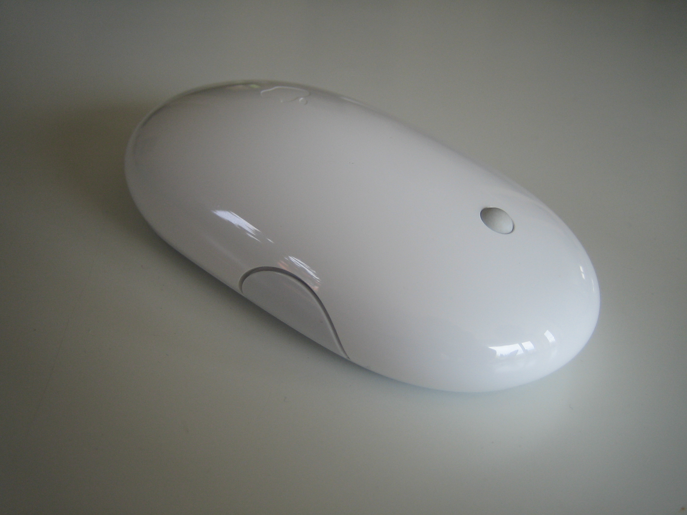 Apple's Mighty Mouse Wireless; ersetzt durch Magic Mouse